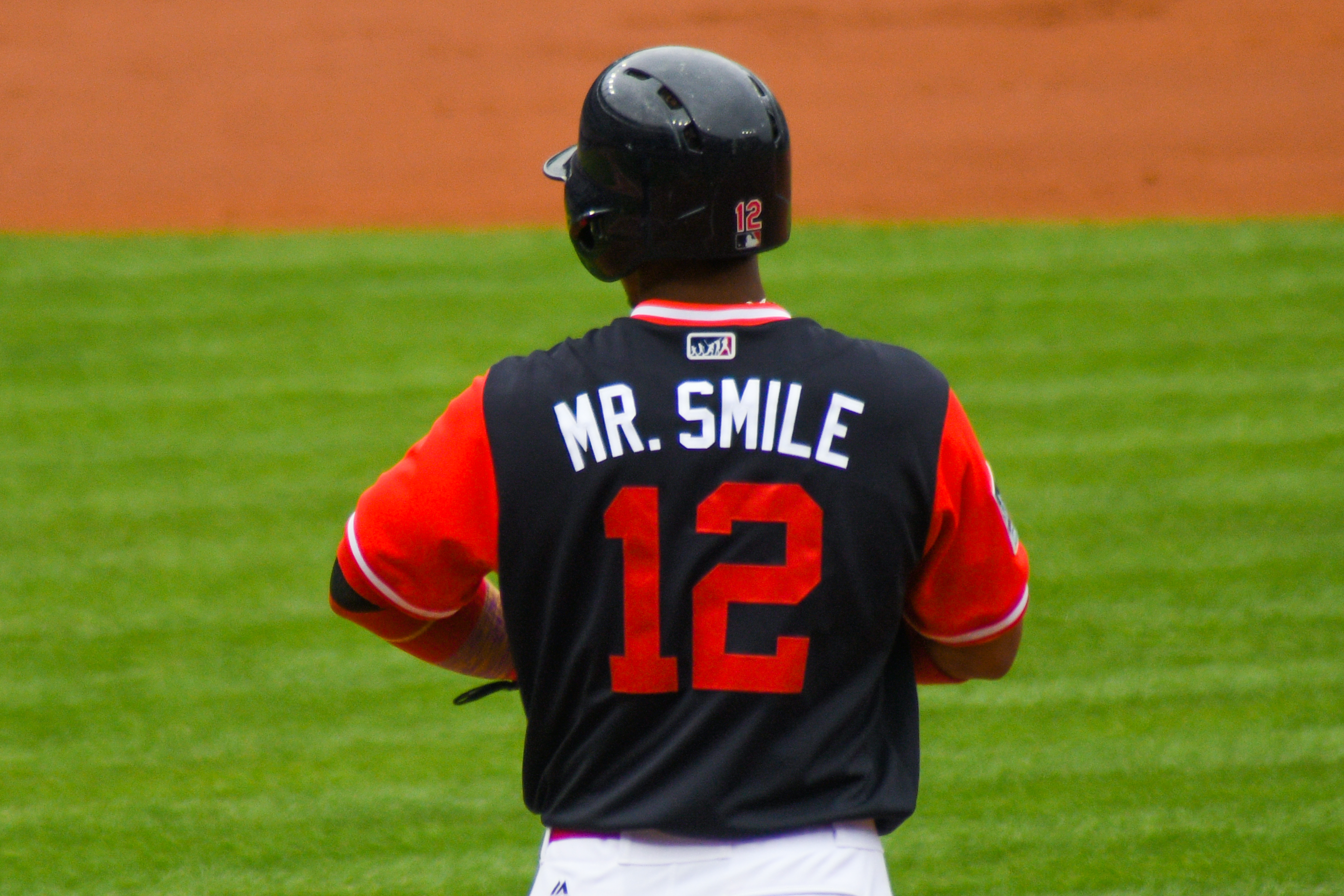 Francisco Lindor's jersey on MLB Players Weekend displays his nickname, "Mr. Smile"